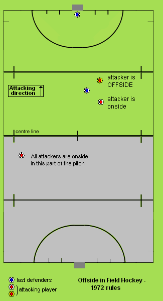 Own - but needs more work - work of User:shirt58, based on free image :Image:Hockey field.svg by User:Robert Merkel